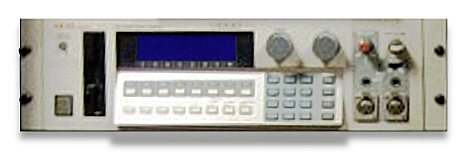 AKAI S1000 clip from: File:Effects_rack,_pete,_NYC.jpg